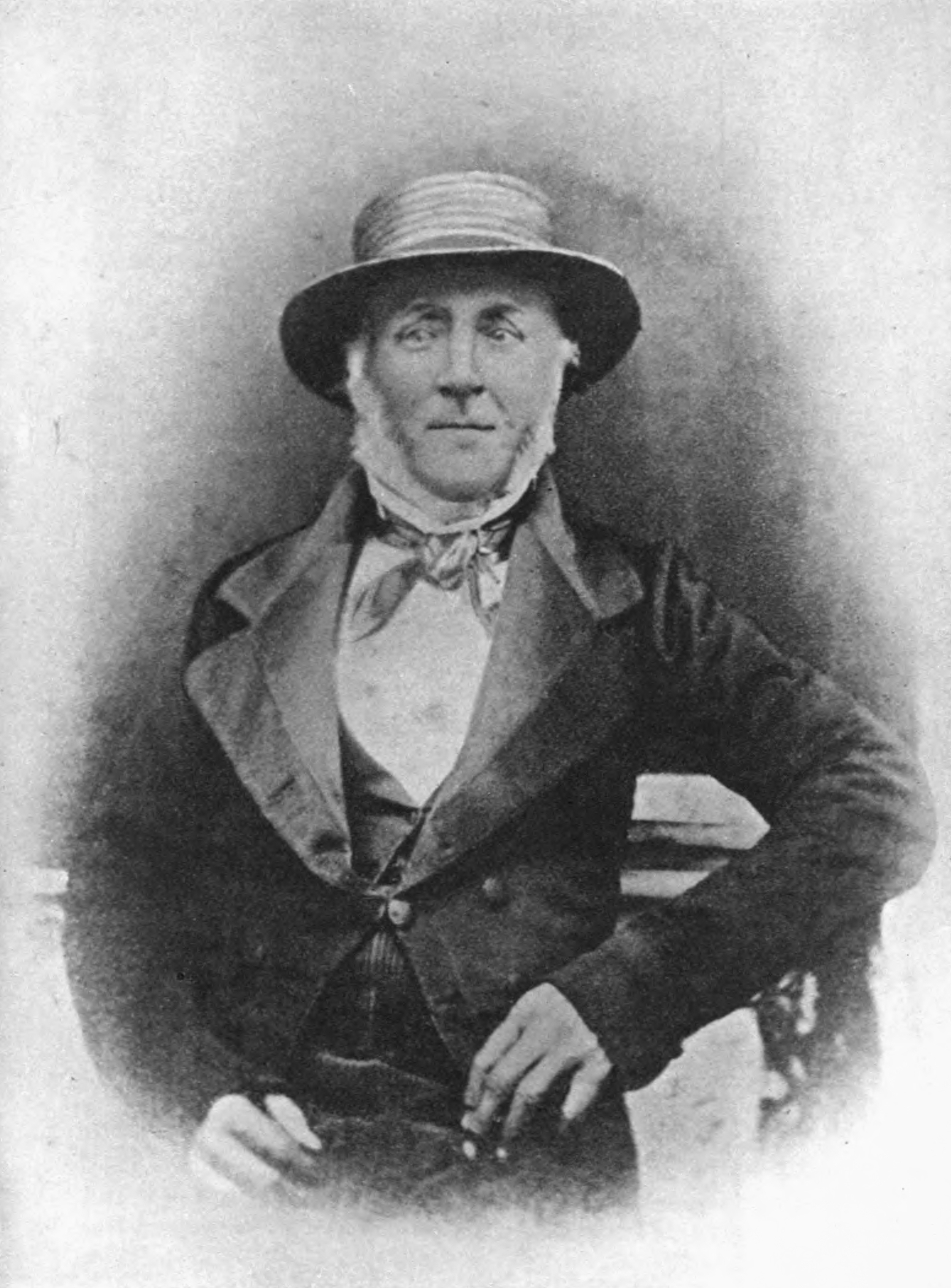 WILLIAM LAMBERT IN OLD AGE (From a photograph in the possession of Mr. A. J. Gaston) scanned image from book "The Hambledon Men" by Edward Verrall Lucas